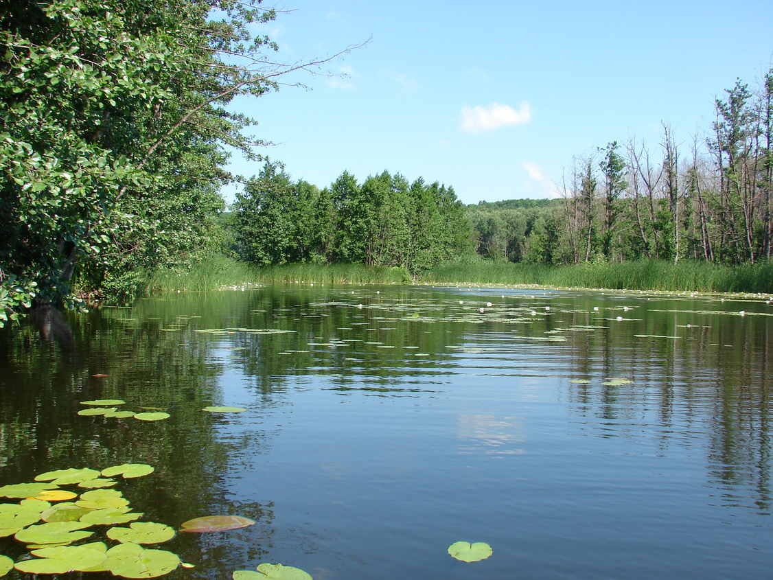 Bityug River in summer